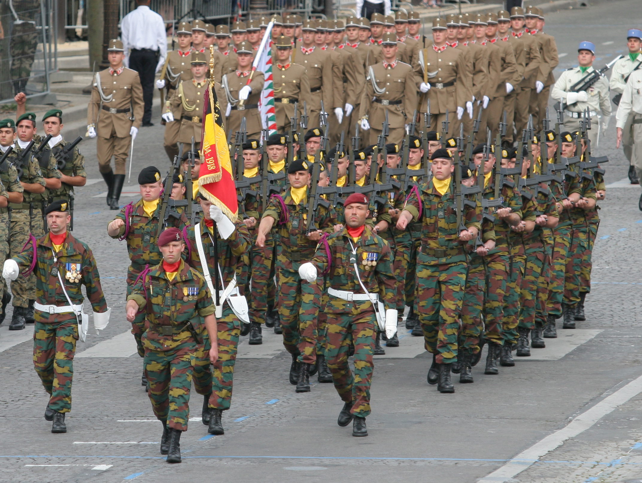 A detachment of the Belgian 2nd/4th Regiment Mounted Rifles regiment marching on the Avenue des Champs-Elysées in Paris during the 2007 Bastille Day Military Parade